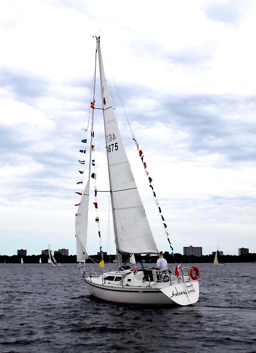 CS 30 sailboat Kelsea on Lac Deschênes, part of the Ottawa River, Ottawa, Ontario, Canada